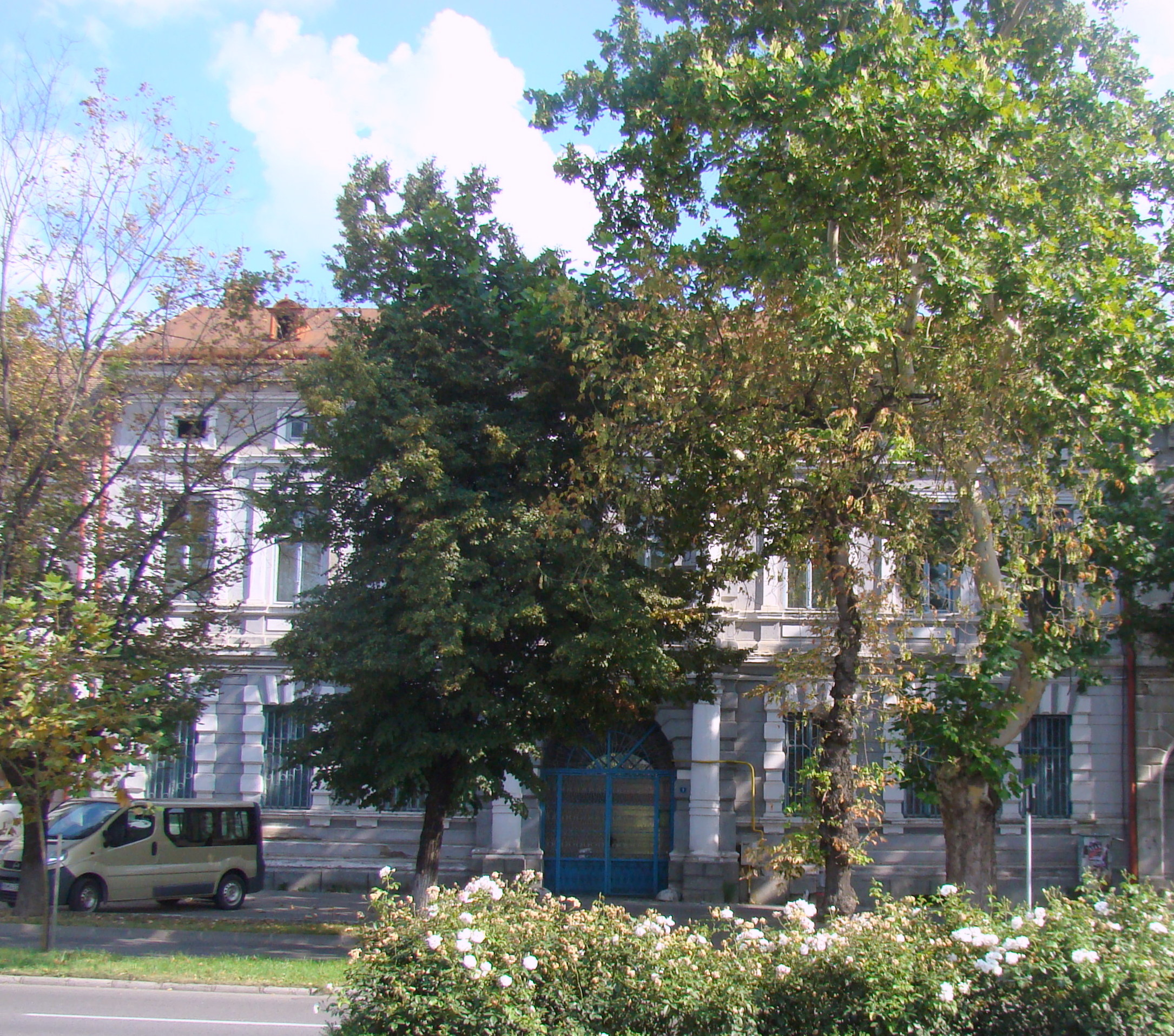 House, historic monument, in Bistrița, Bd. Independenței 7